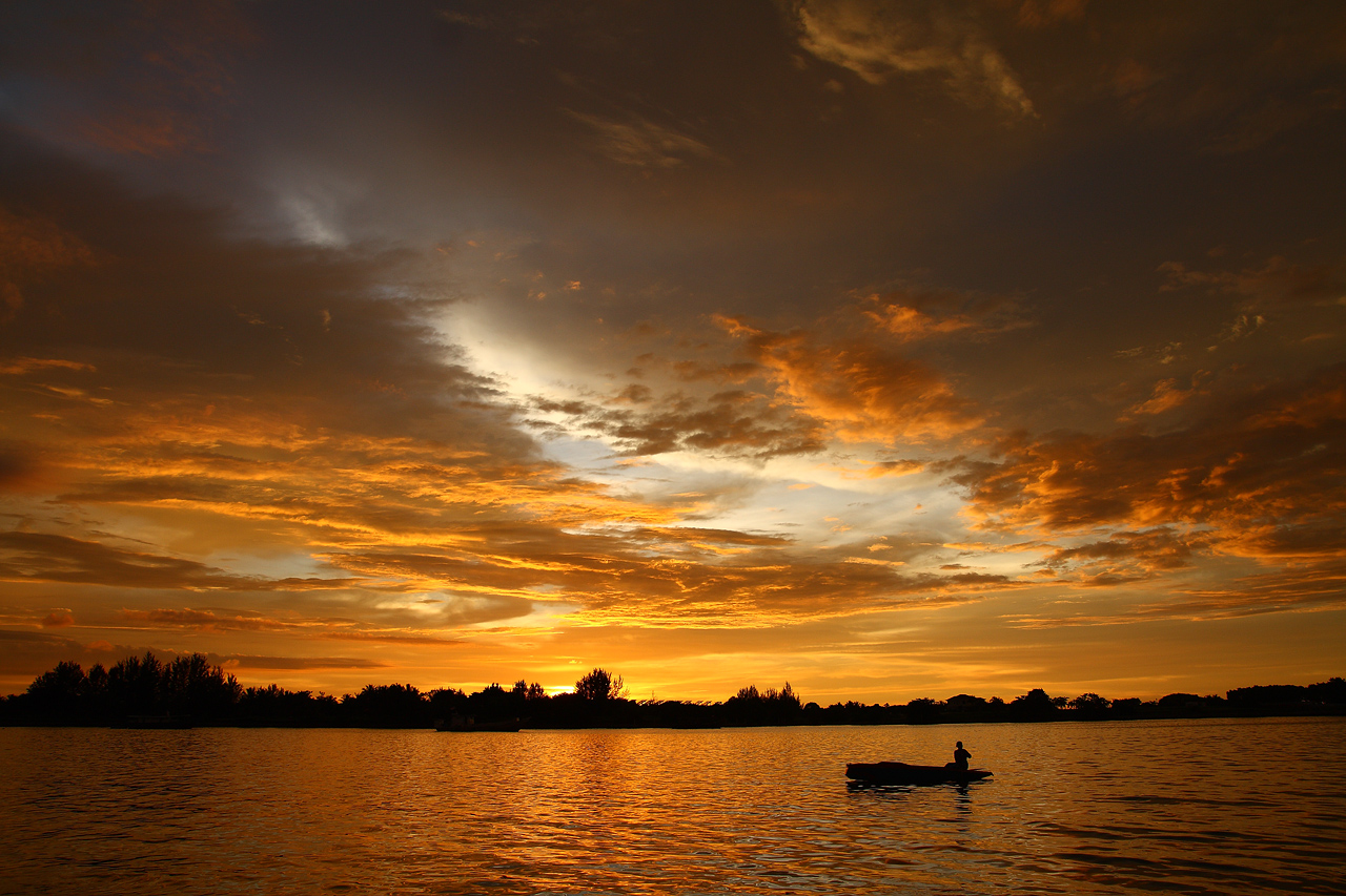 This photo was taken on November 7, 2008 using a Canon EOS 450D.